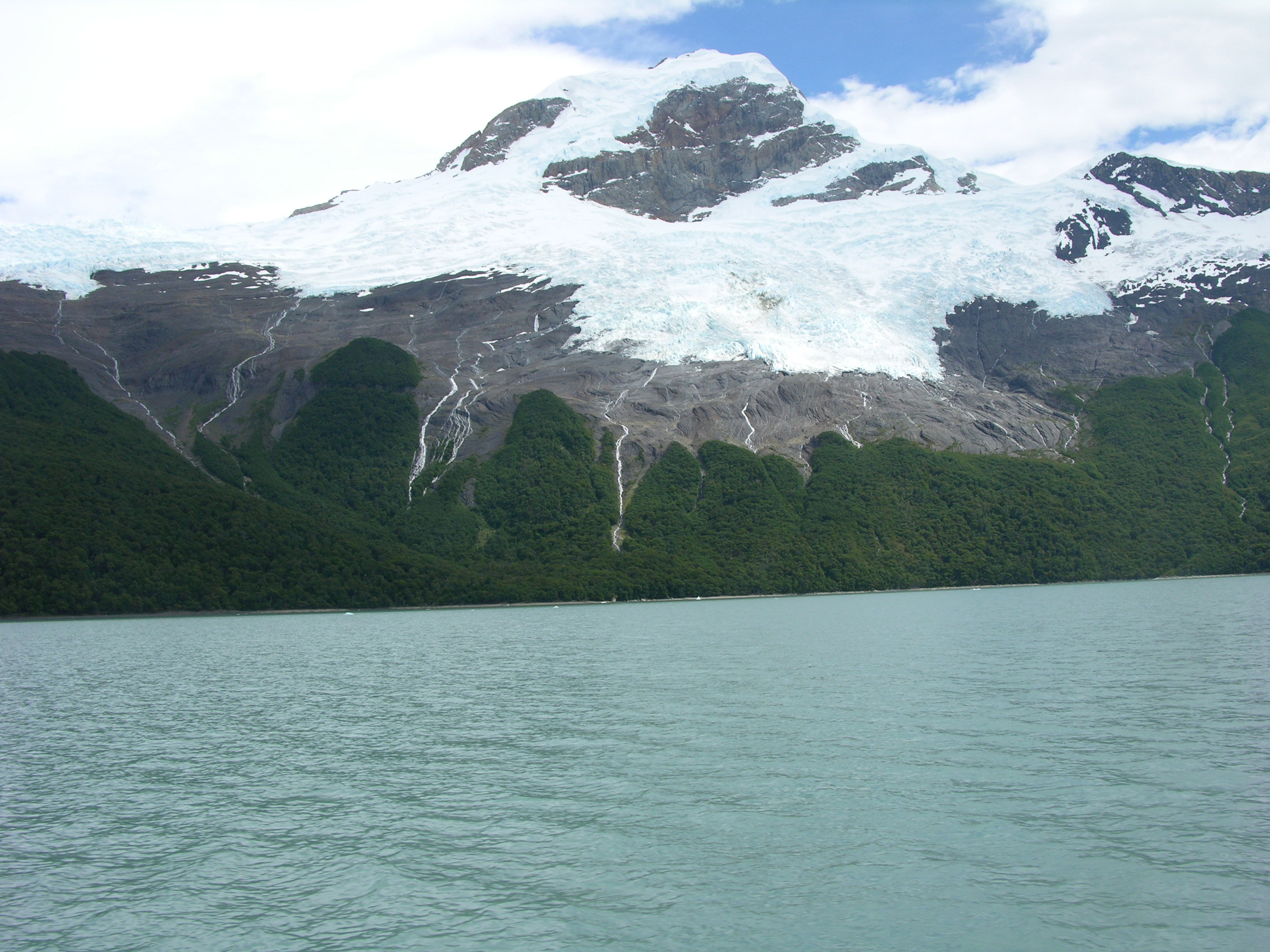 Retreat of glaciers and global warming